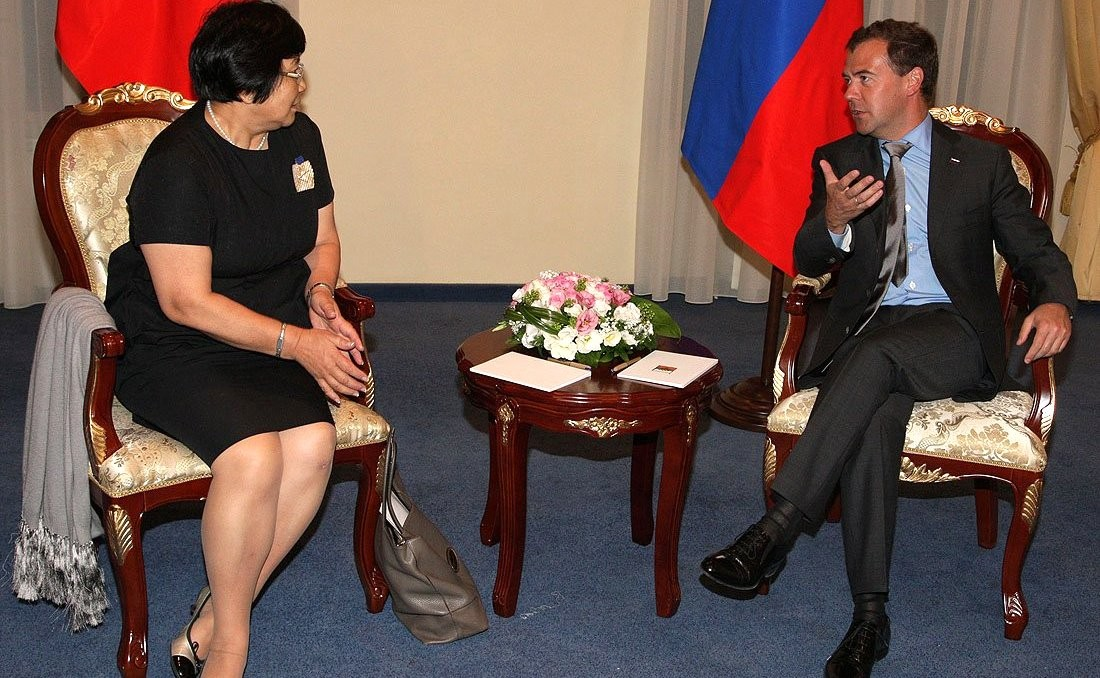 With President of Kyrgyzstan Roza Otunbayeva.